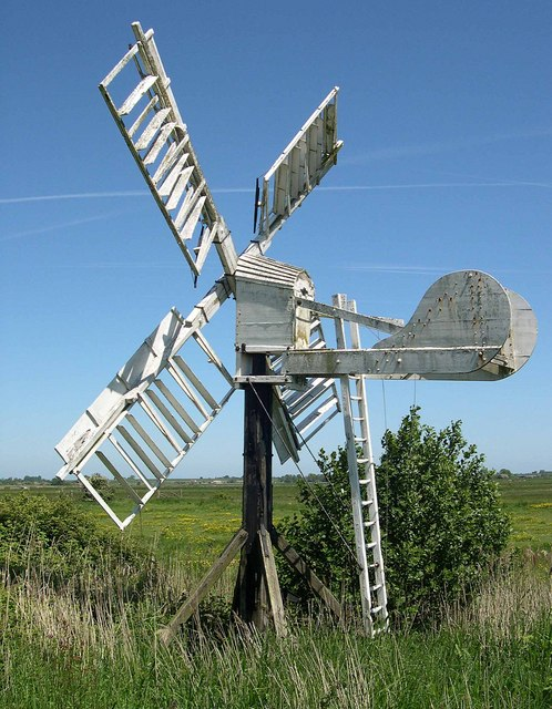 Palmer's Drainage windpump located near Upton in Norfolk. Hollow post windpump. Originally a derelict mill near Acle and moved to this present site in 1979 following full restoration by a local millwright.